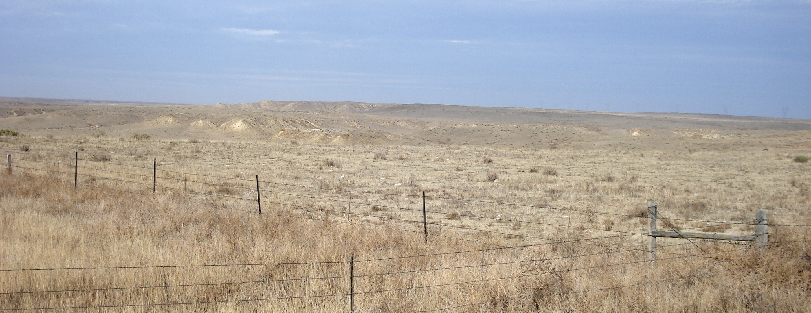 Picture of high plains from Colorado route 52 north of Ft. Morgan, Colorado.